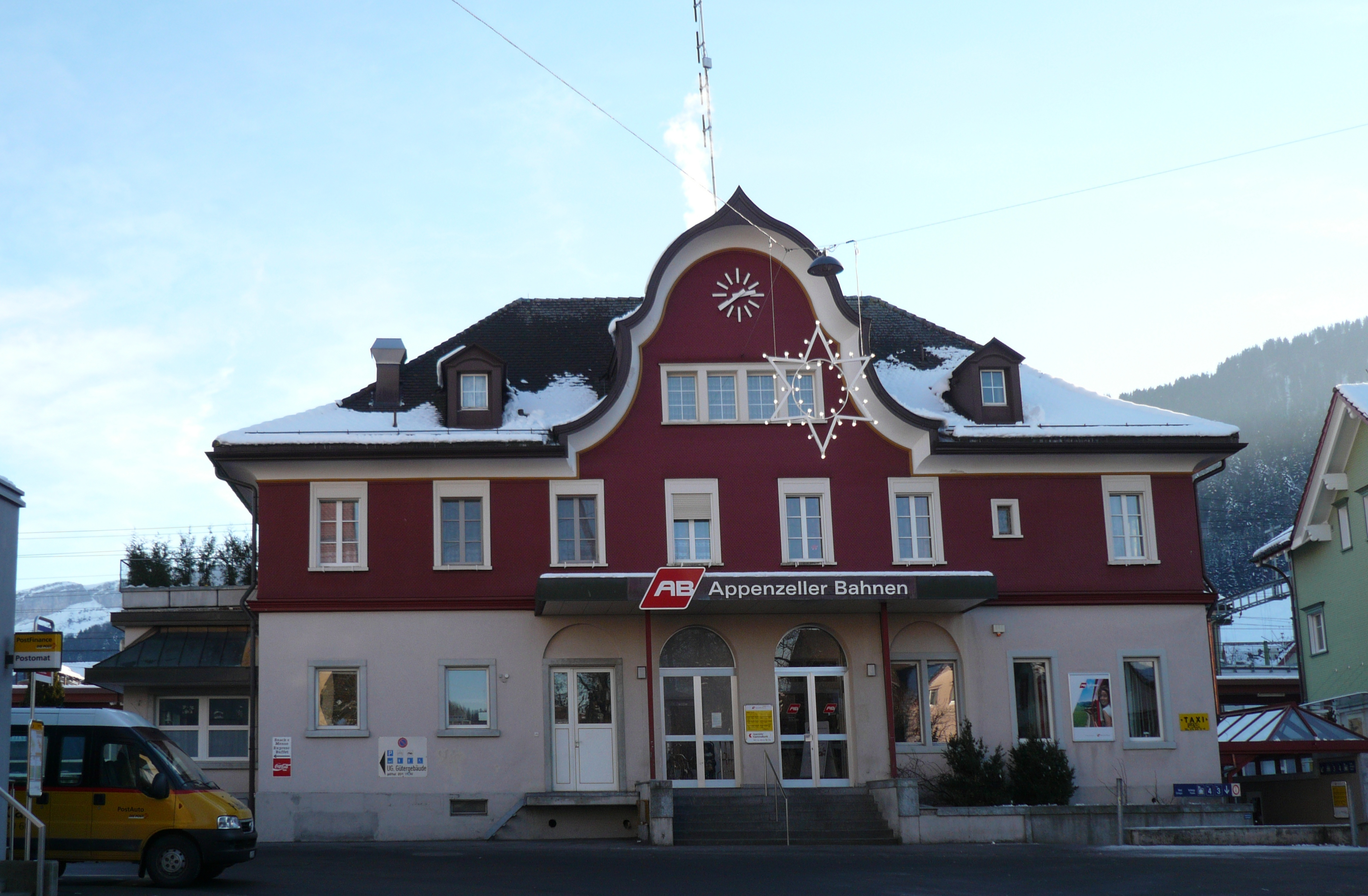 Appenzell railway station